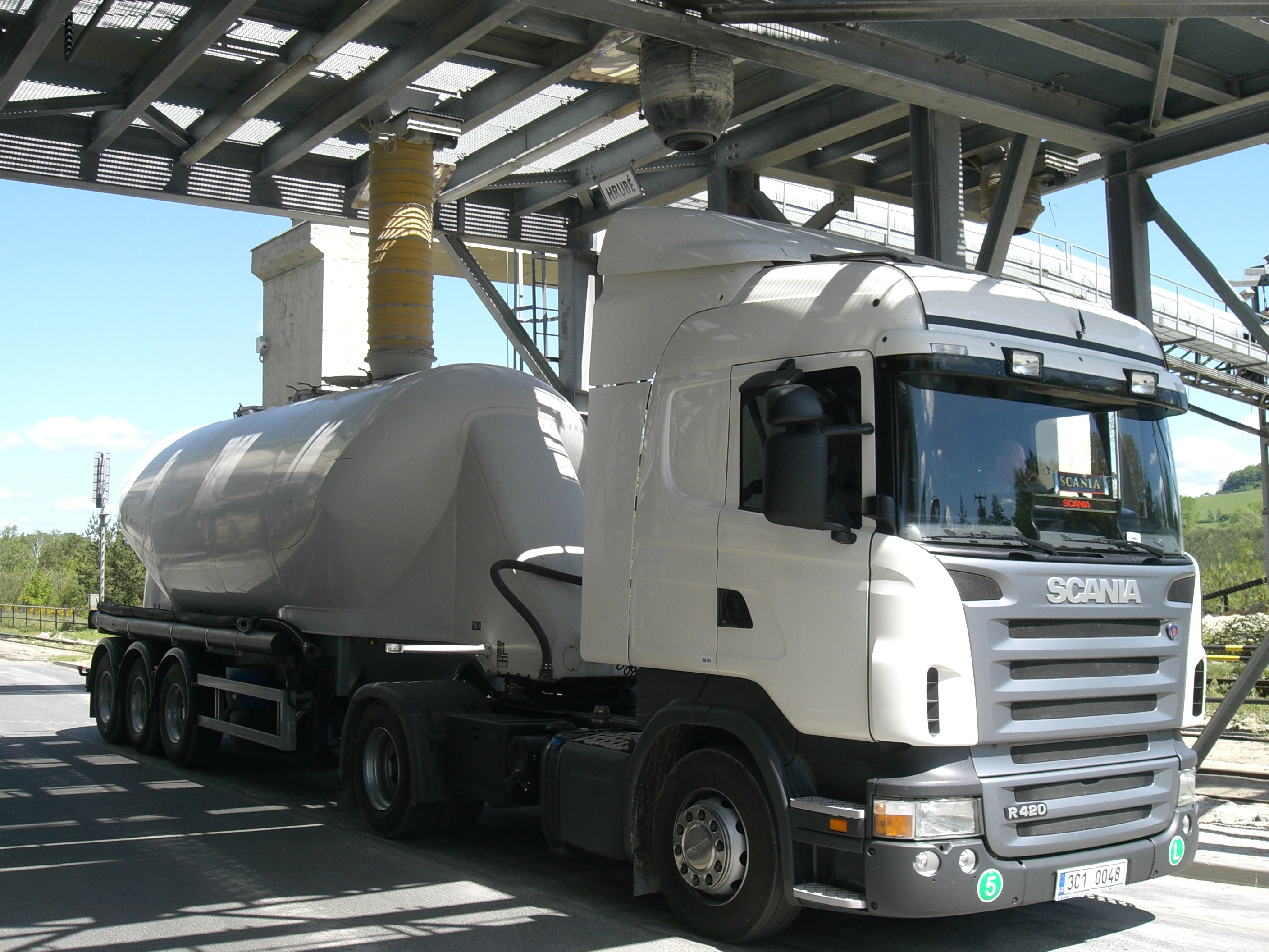 Sand processing mill near Provodín, Czech Republic. Close view of loading glass sand in a tanker.